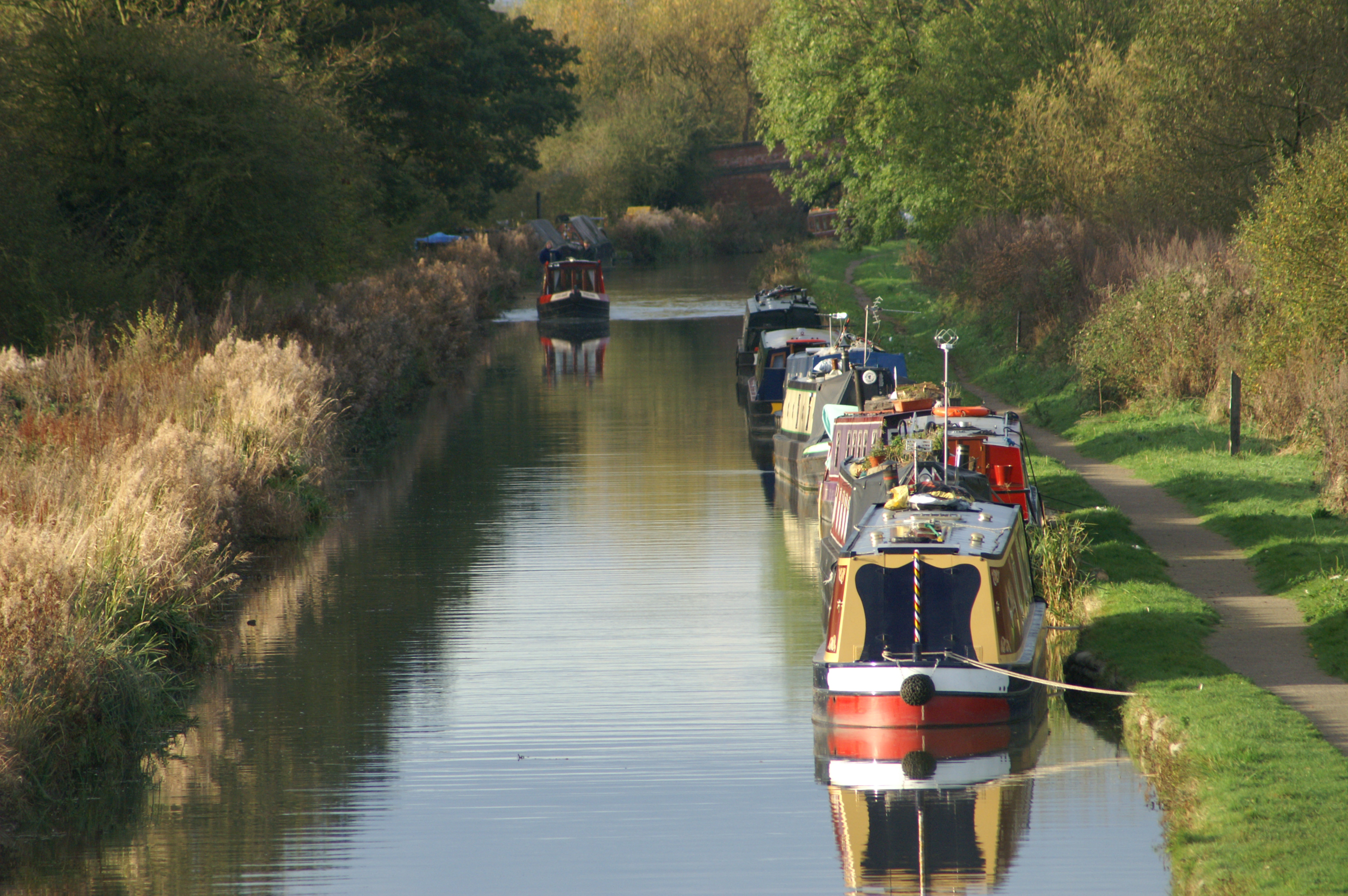 Looking south from Braunston, Northamptonshire See where this picture was taken. [?]